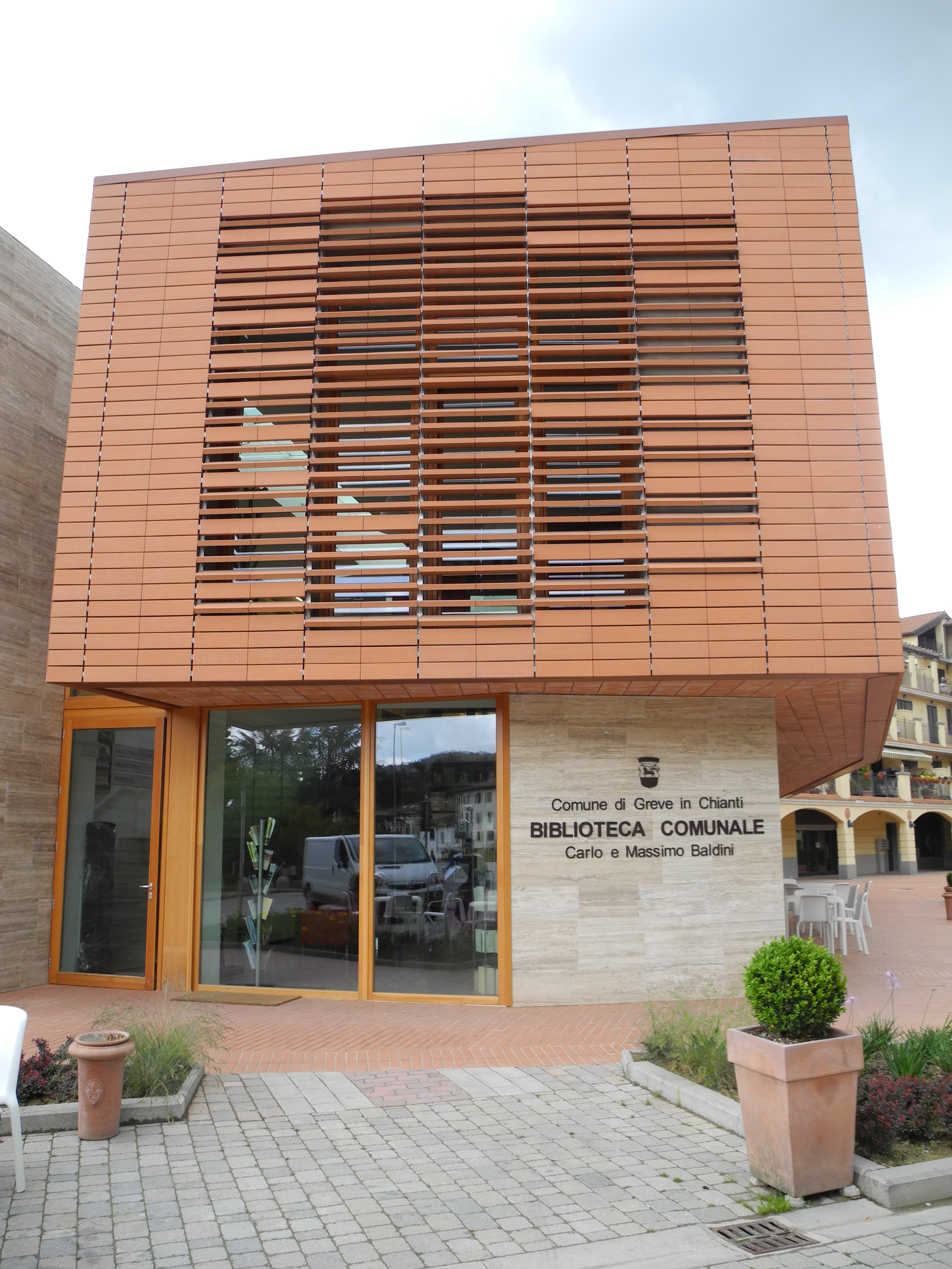 Biblioteca comunale di Greve in Chianti